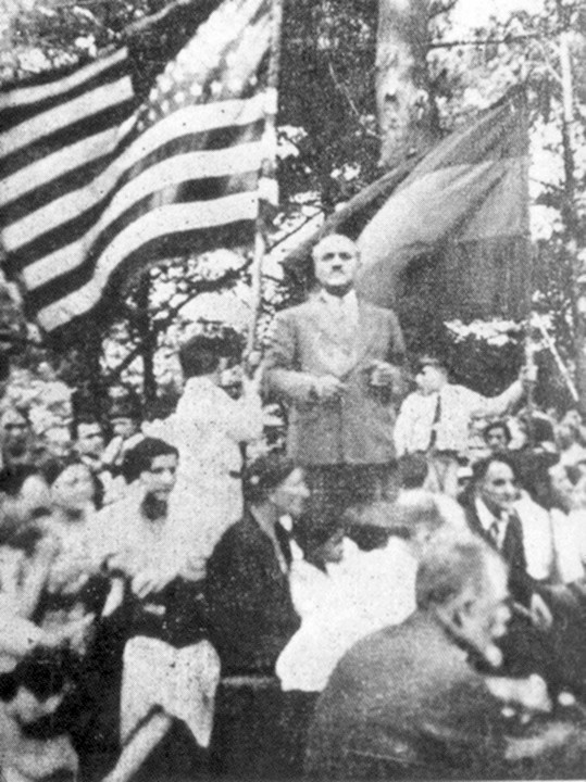 Garegin Njdeh at the founding of the Armenian Youth Federation (Tseghakron) in Boston in 1933.